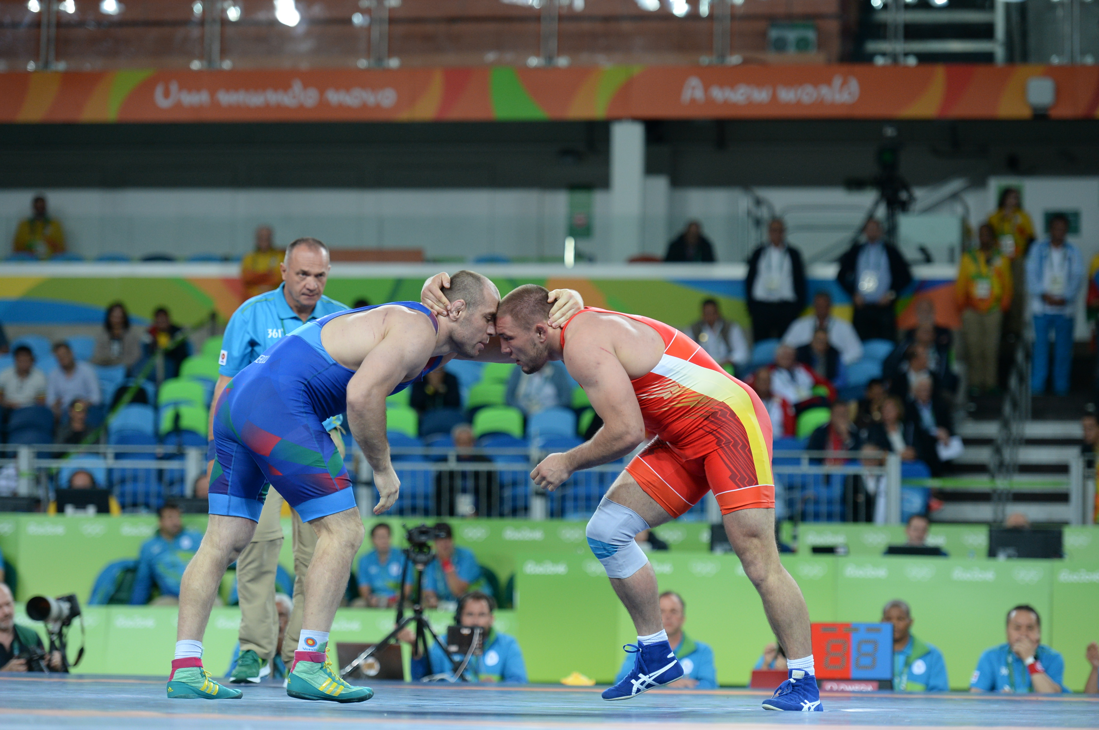 Wrestling at the 2016 Summer Olympics, Gazyumov vs Andriitsev